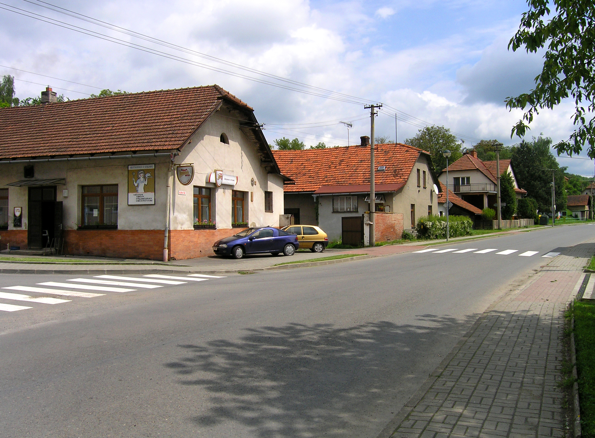 Restaurant in Zádveřicíce, part of Zádveřice-Raková village, Czech Republic